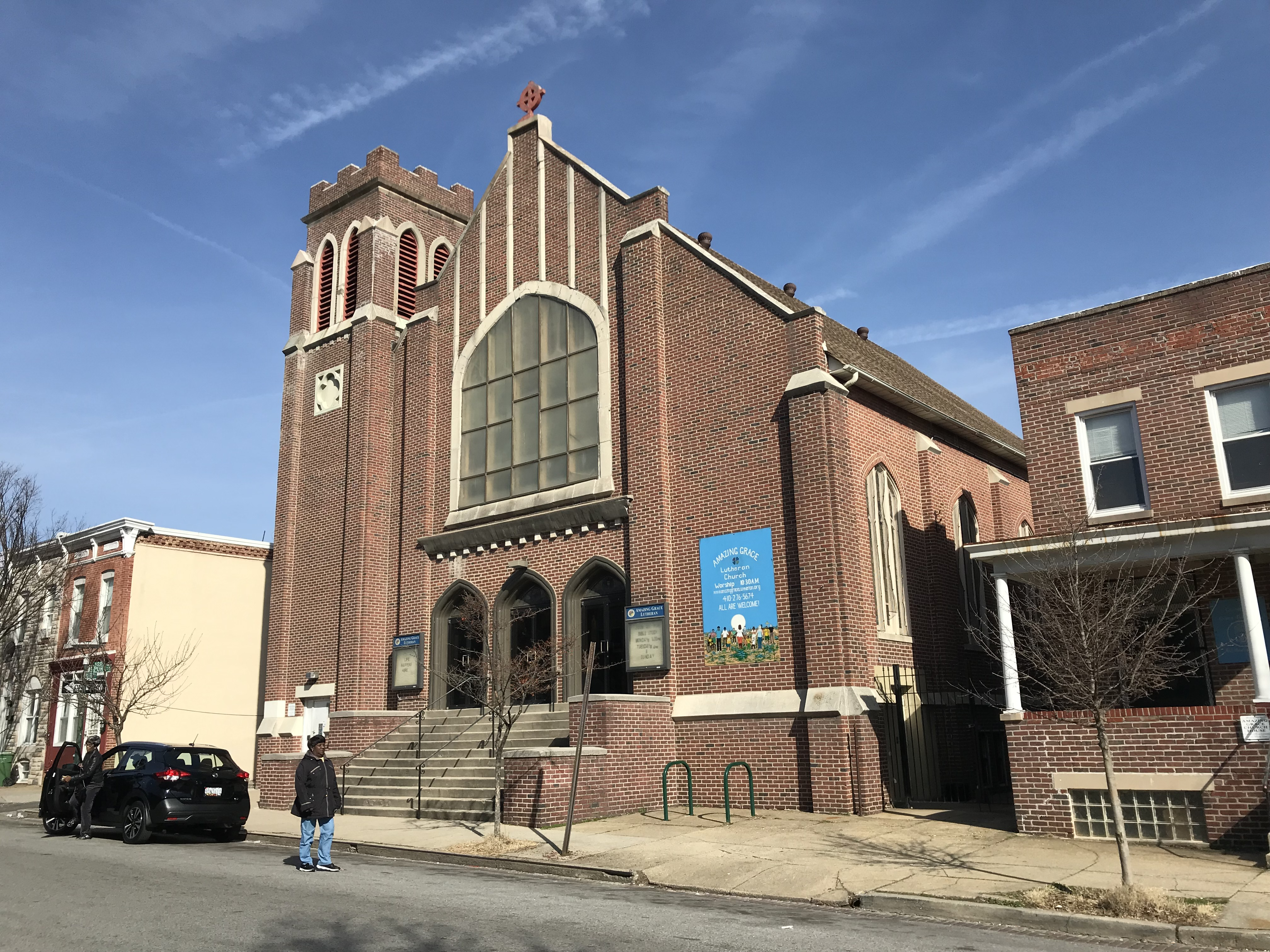 Photograph by Eli Pousson, 2019 March 28.